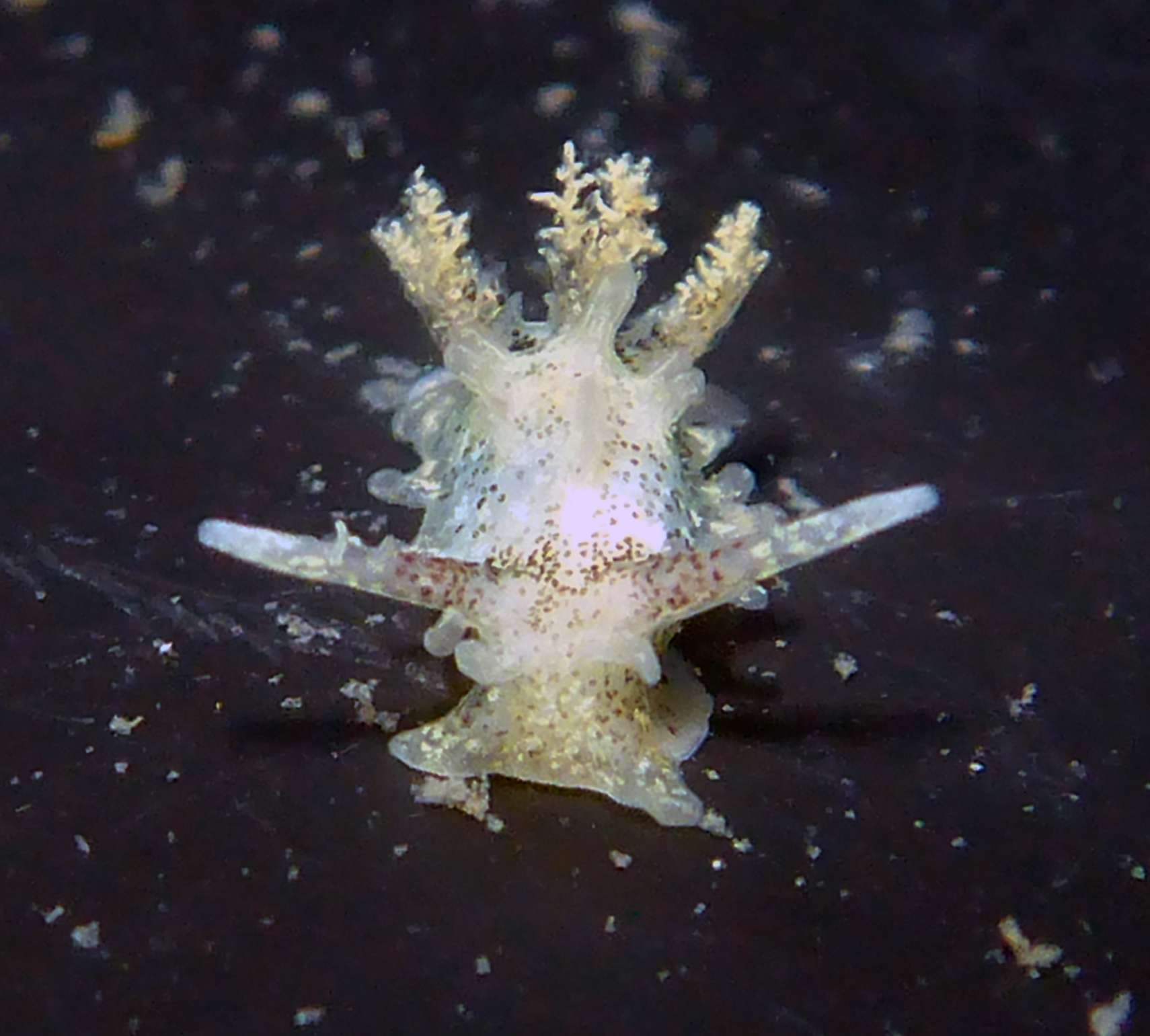 Okenia angelensis from Morro Bay, California